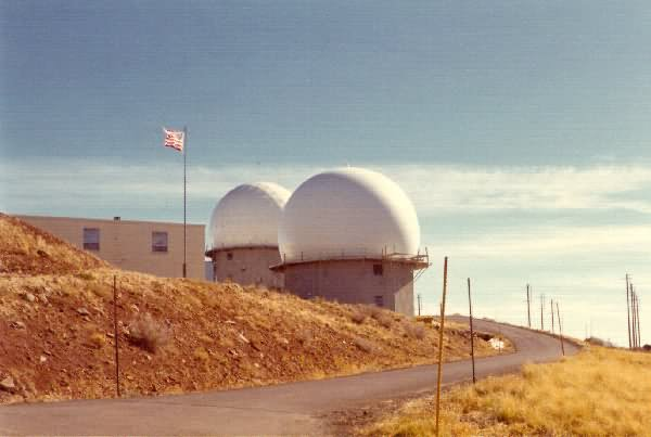 A view of the FPS-6 Height Finder (foreground) and FPS-67 Search radar at Keno Air Force Station, Oregon. This radar site was located on the peak of Hamaker Mountain, and was about 6600 feet altitude.